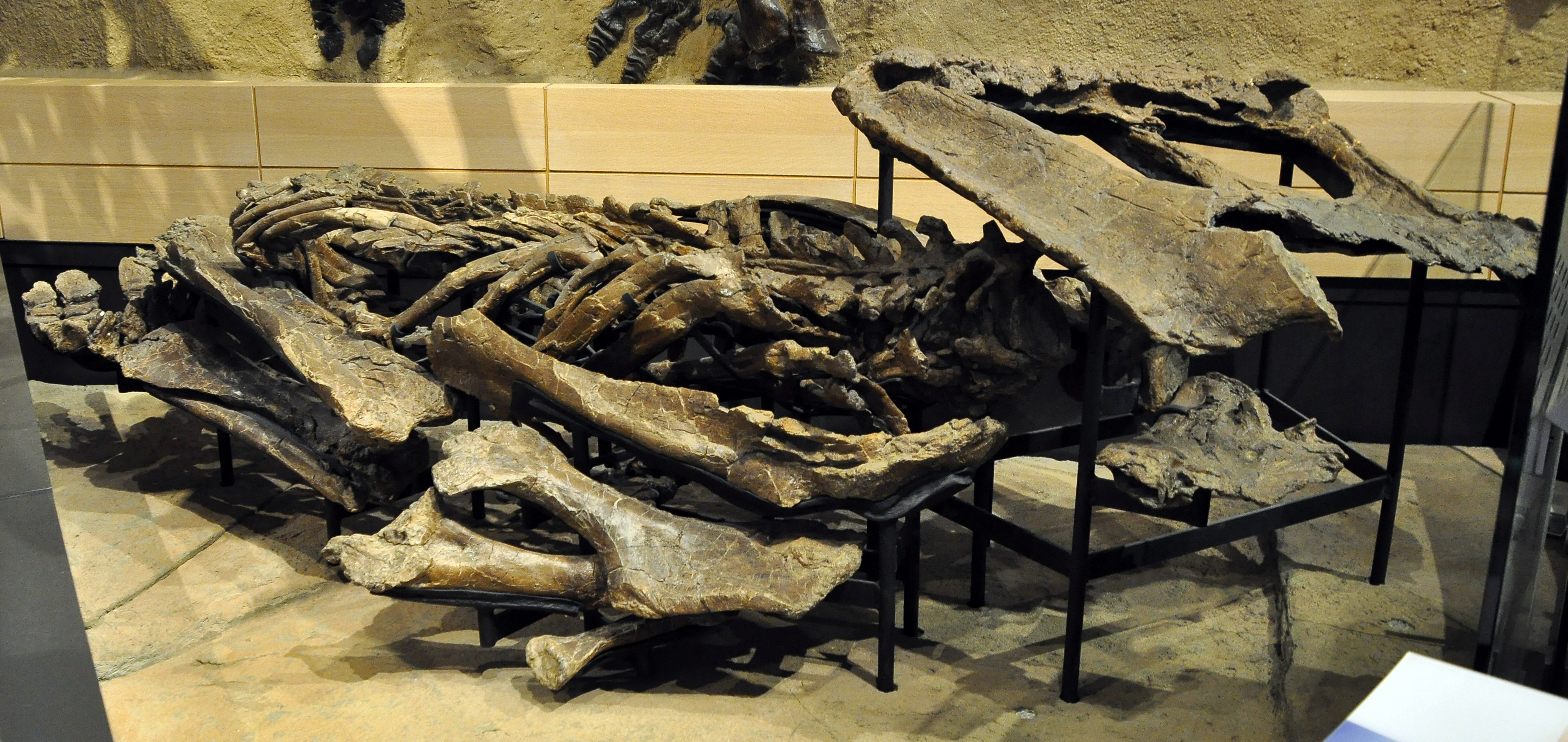 Vagaceratops (= Chasmosaurus) irvinensis (type specimen CMN 41357), Ottawa, Canada, June 2015.